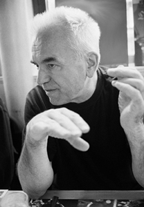 This is a picture of Mr. Horst Widmann. It have been made by Mr. Christophe Lepecq.